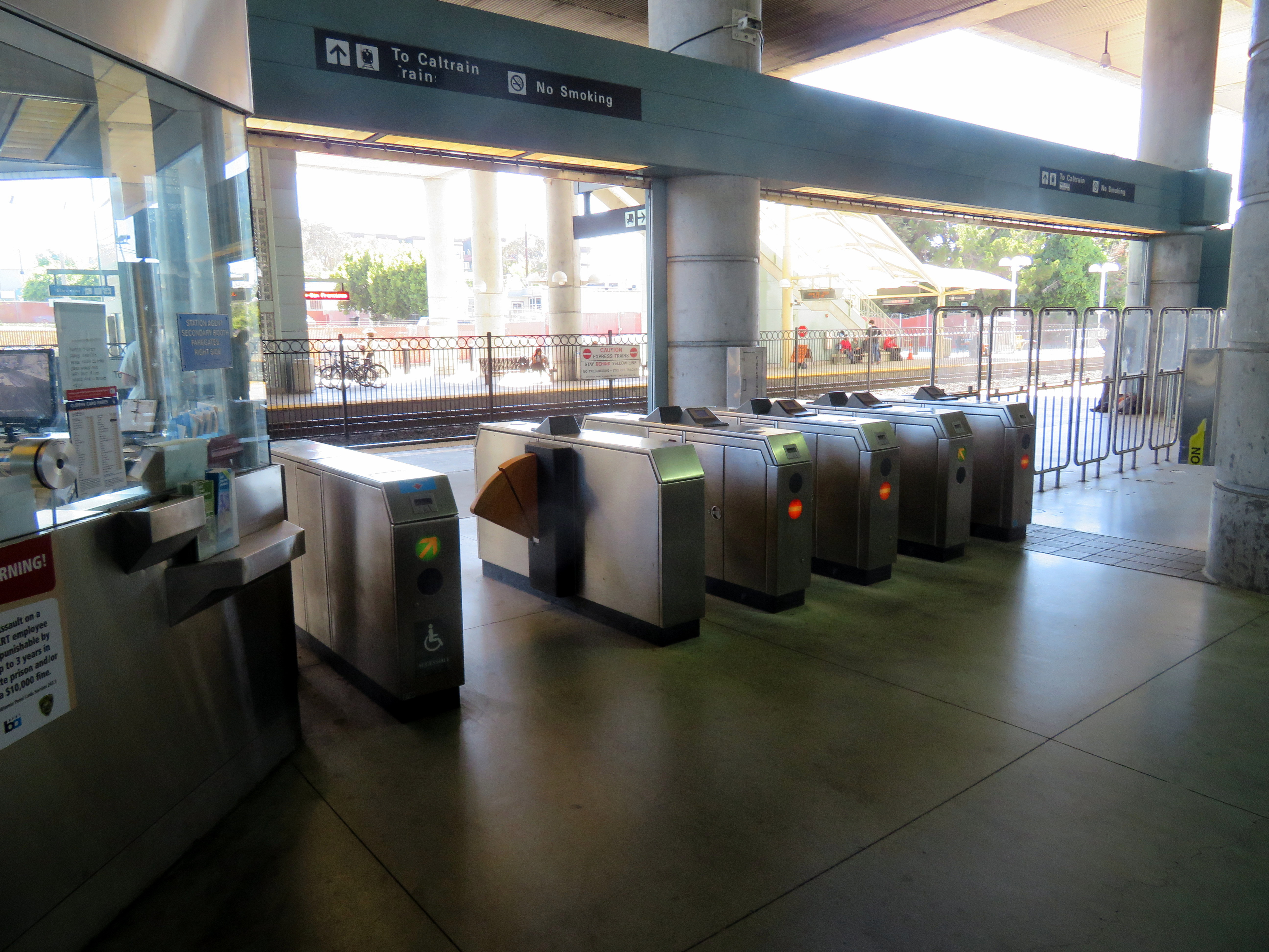 BART faregates connecting the BART platform and the northbound Caltrain platform at Millbrae station in June 2018